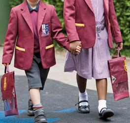 Challoner Junior Uniform